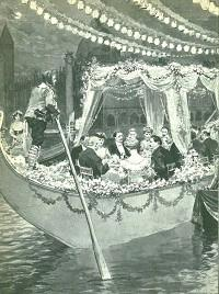 1905 Illustration of the famous "Gondola" party at the Savoy Hotel in 1905.